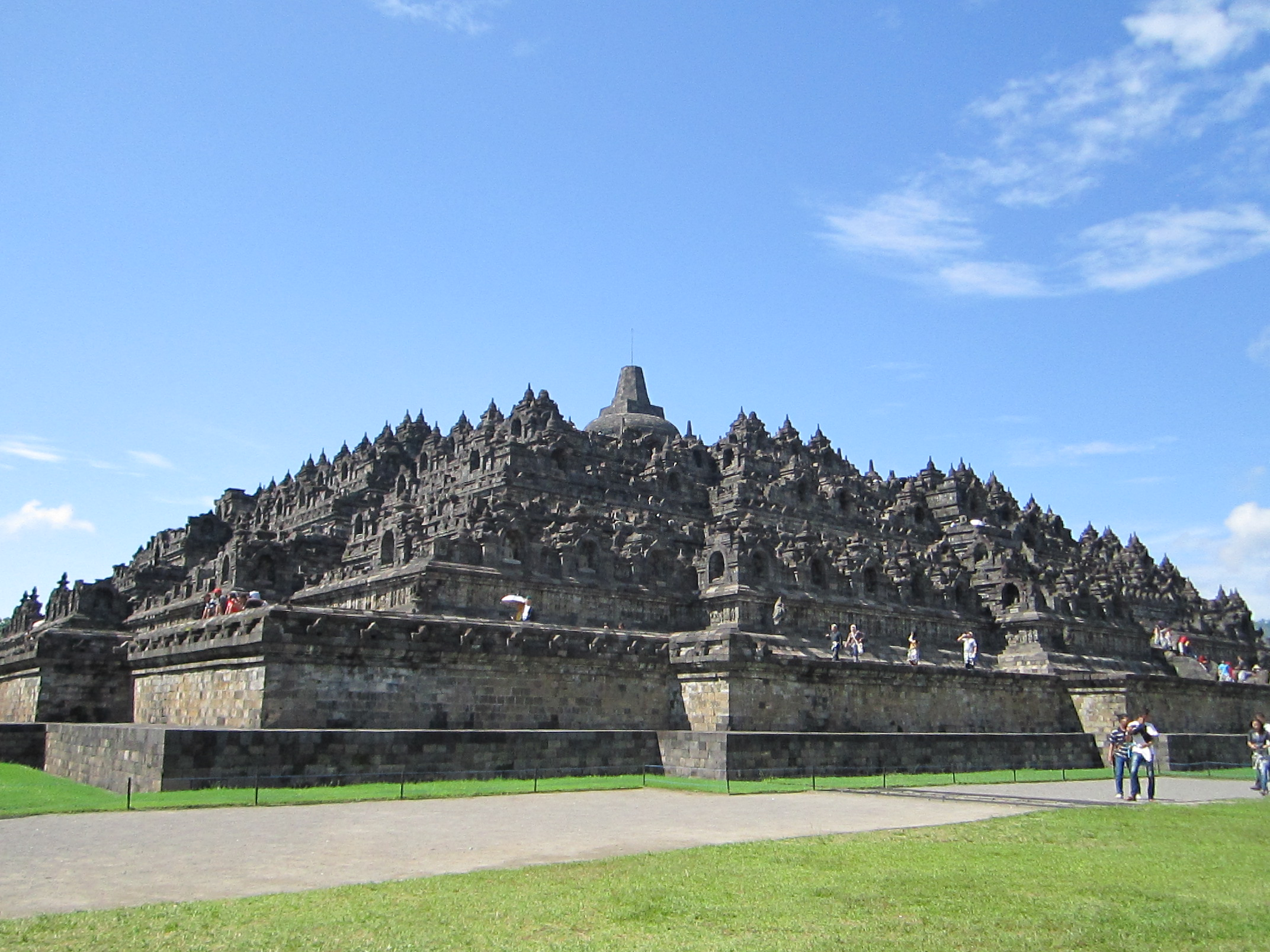 Borobudur Temple in 2013.